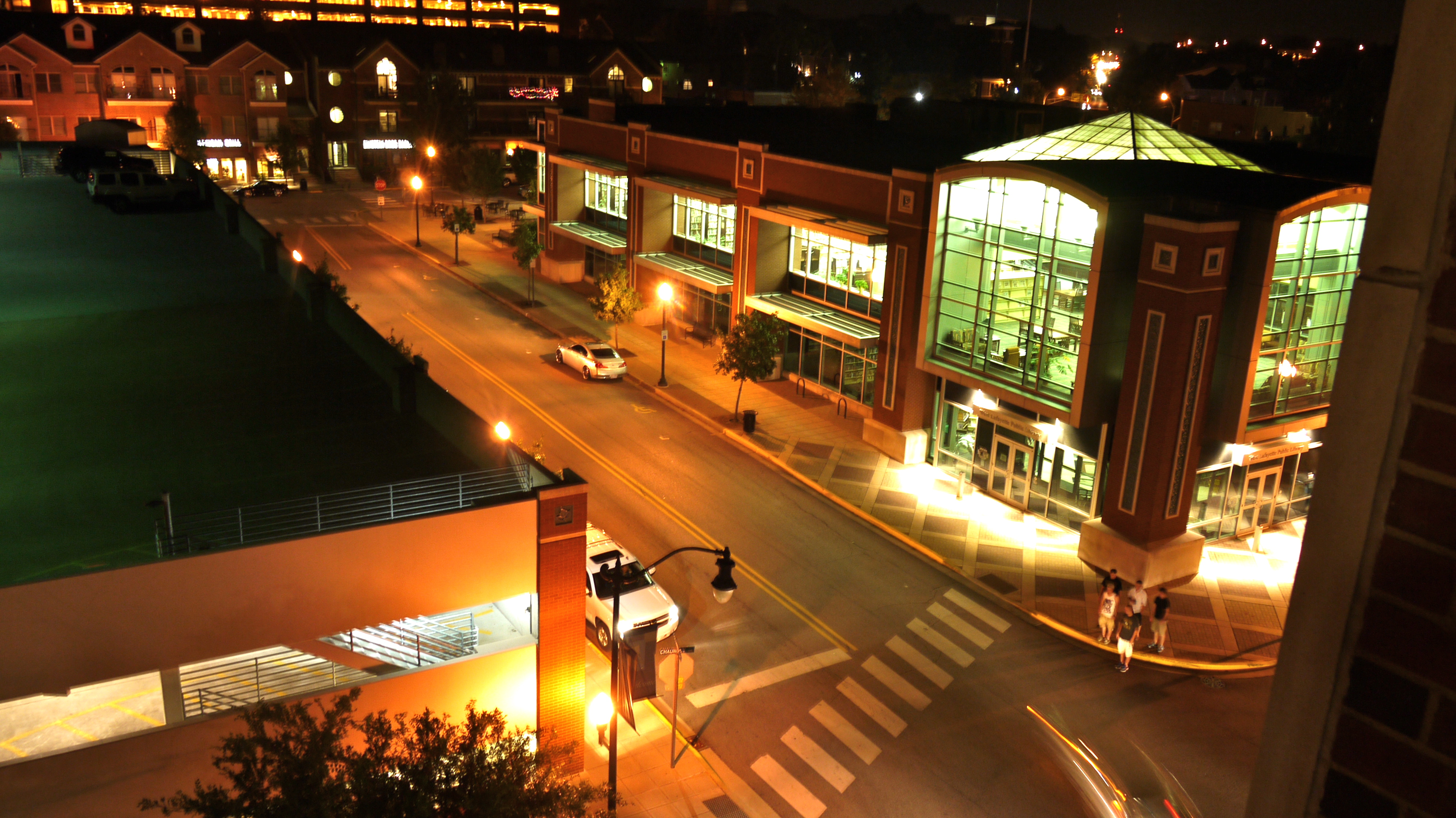 Chauncey Village & West Lafayette Public Library